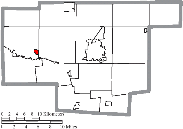 Map of the municipal and township boundaries of Marion County, Ohio, United States, as of the 2000 census, with the location of the village of New Bloomington highlighted. Township borders are shown only in unincorporated areas in order to differentiate incorporated and unincorporated areas more clearly.